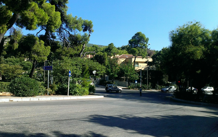 ekali